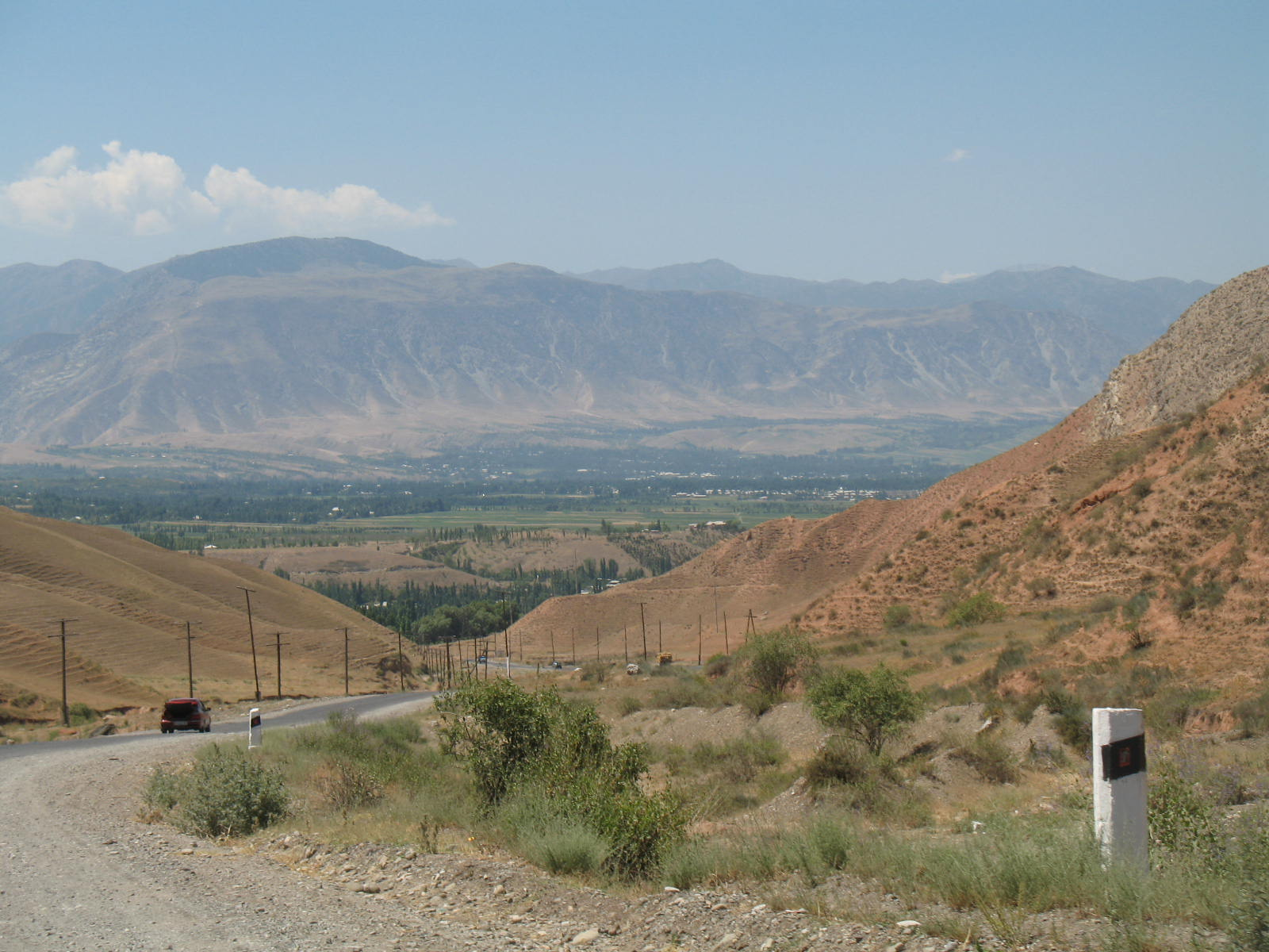 The city of Nooqat as seen from the north Кыргызча: Түндүк жагынан көрүнгөн Ноокат шаары